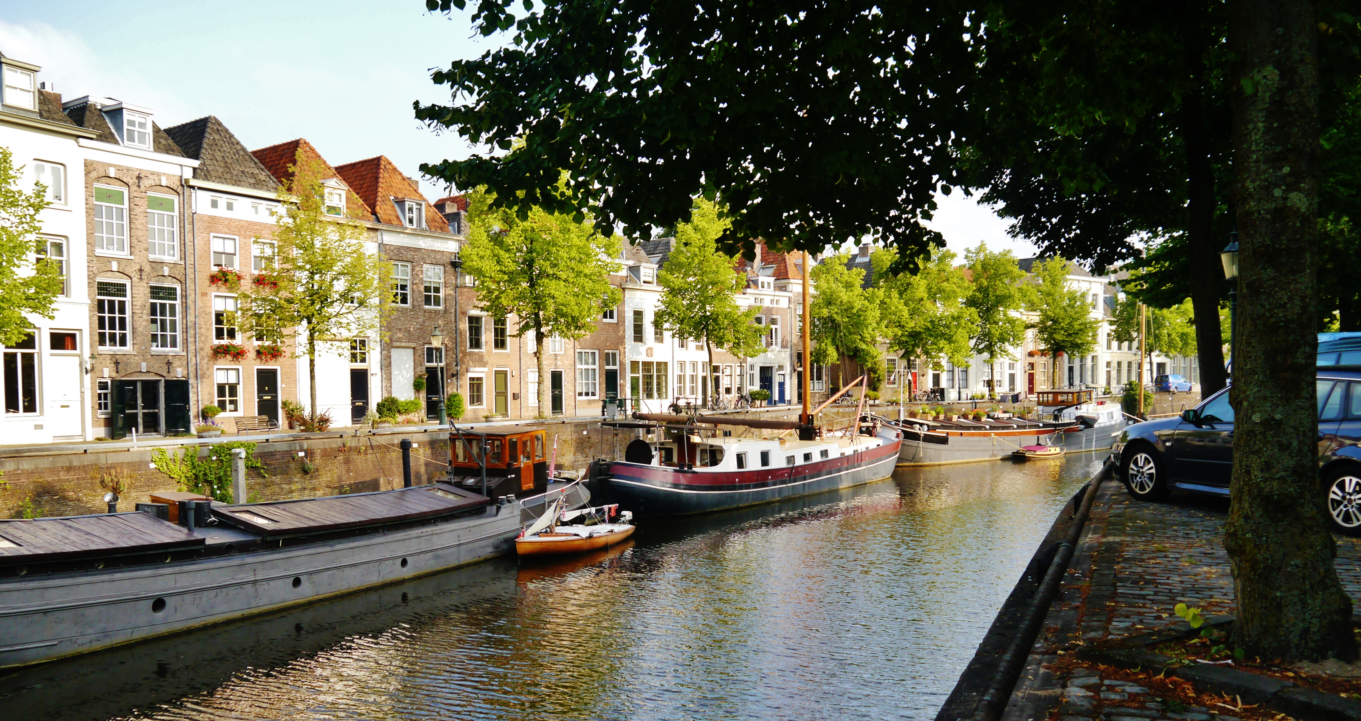 Binnendieze, 's-Hertogenbosch, Province of North Brabant, Netherlands